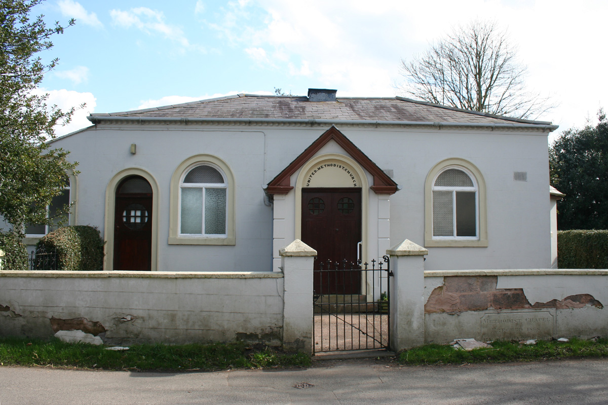 Broomhall and Sound Methodist Chapel, Sound, Cheshire, seen from the northwest